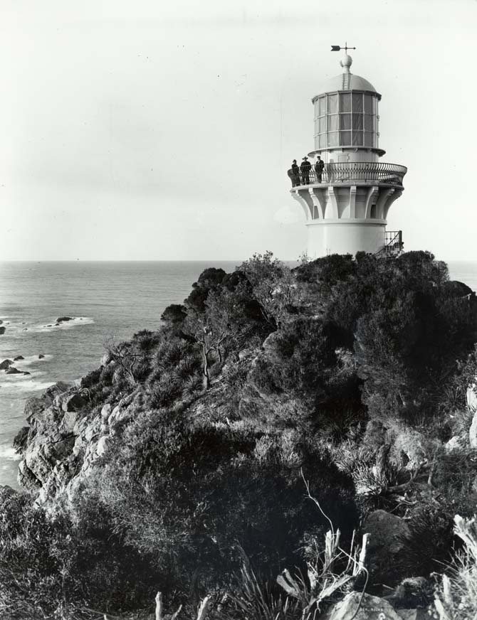 Sugarloaf Point Lighthouse, Seal Rocks, historic view Digital ID: 4481_a026_000561 Rights: We'd love to hear from you if you use our photos. Many other photos in our collection are available to view and browse on our website using Photo Investigator.